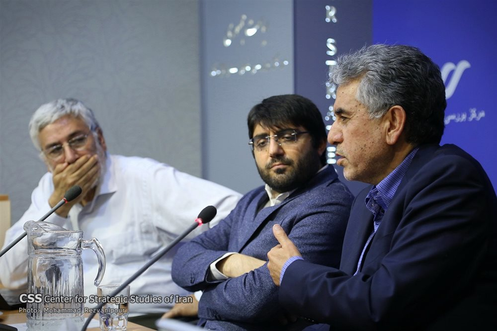 Gholamreza Manouchehri, Iranian politician